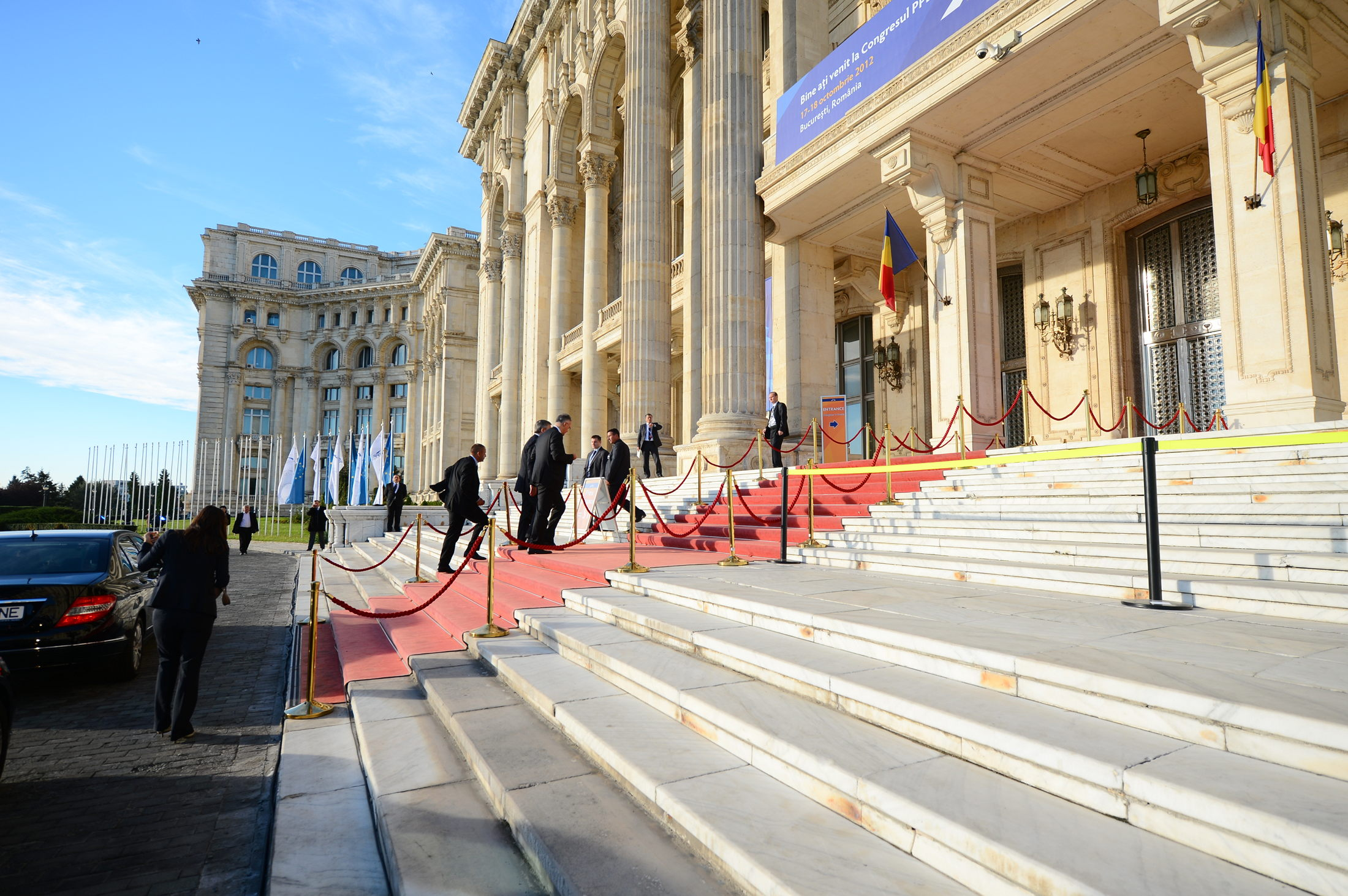 EPP_Congress_1837